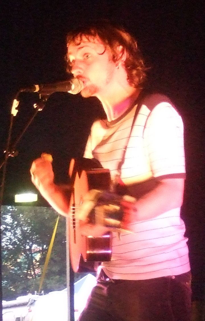 Kid Harpoon at the Glastonbury Festival